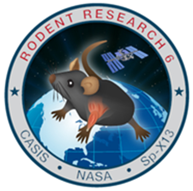 This is the NASA mission patch for the Rodent Research-6 Experiment.